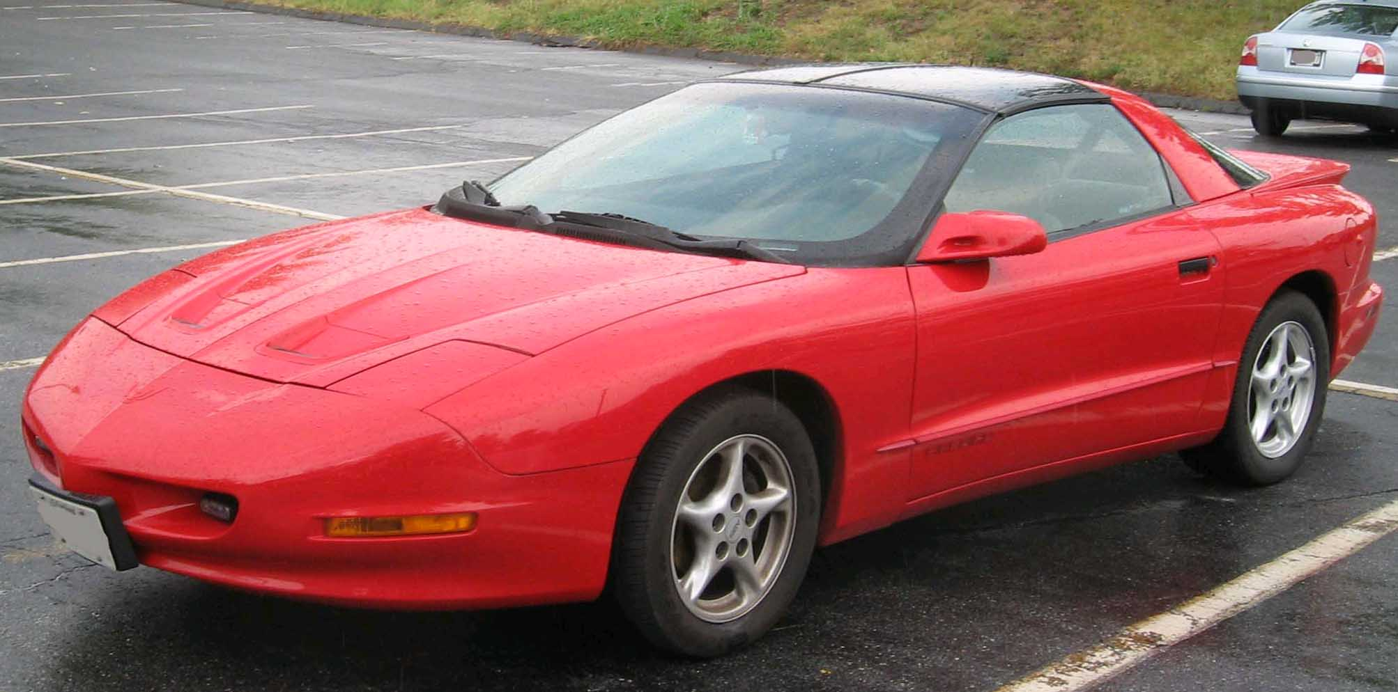 1993-1997 Pontiac Firebird photographed in College Park, Maryland, USA.